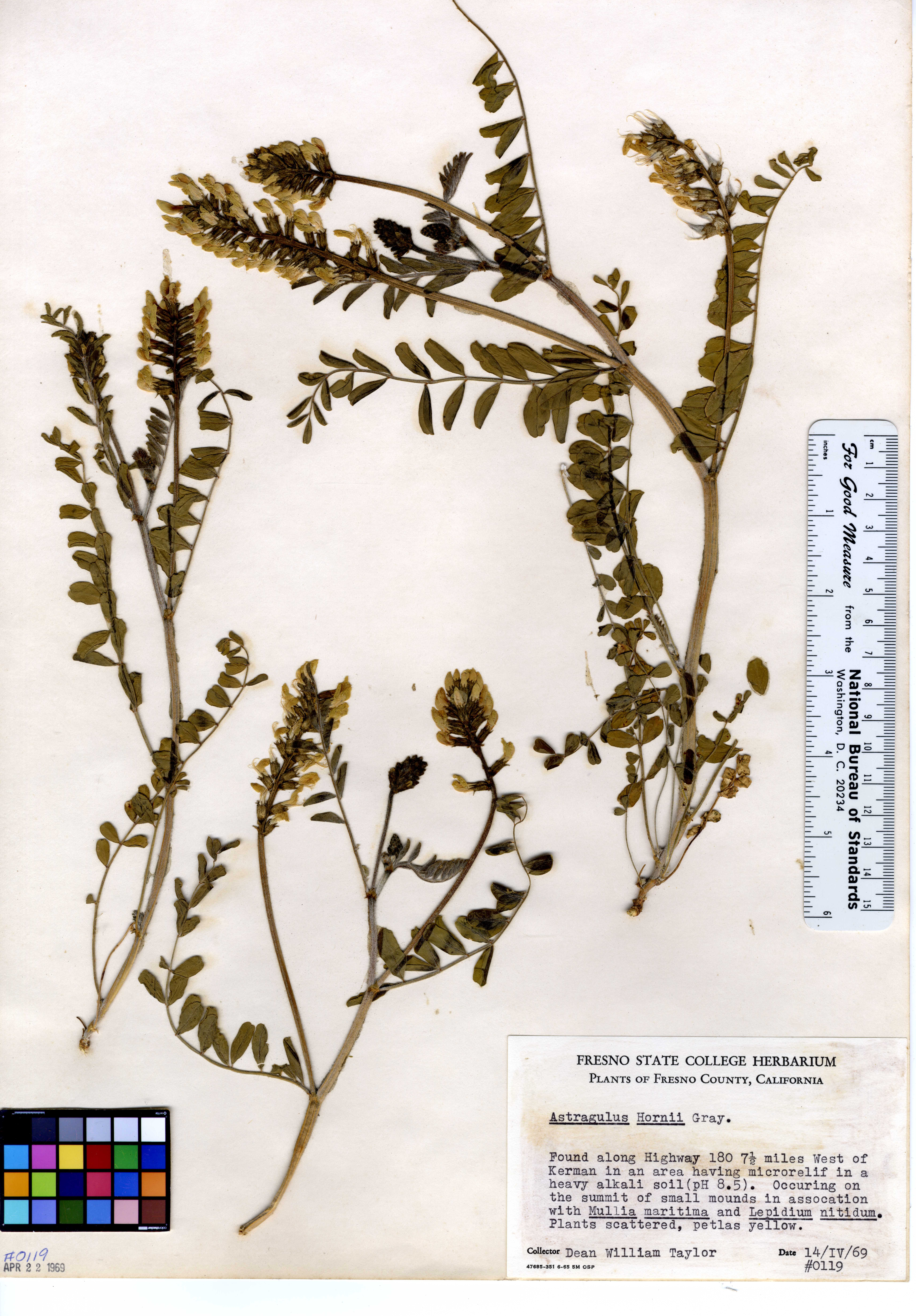 Astragalus asymmetricus